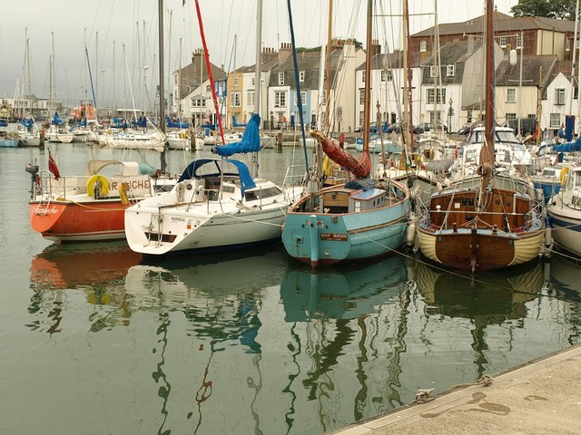 Boats in Weymouth Harbour These boats are beside Cove Row. In the background are buildings on Nothe Parade.